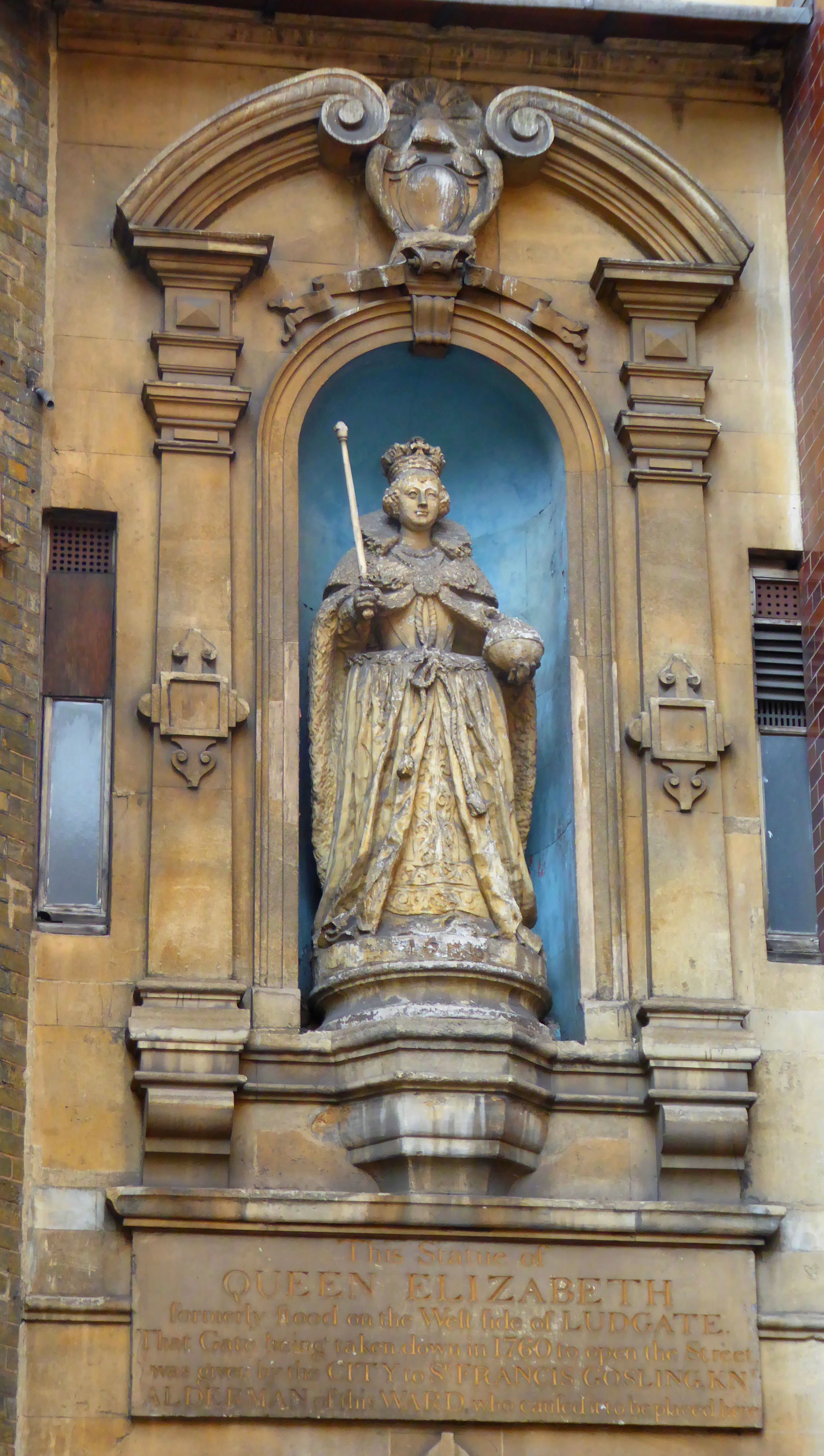 The statueof Queen Elizabeth I on the side of St Dunstan-in-the-West, Holborn.